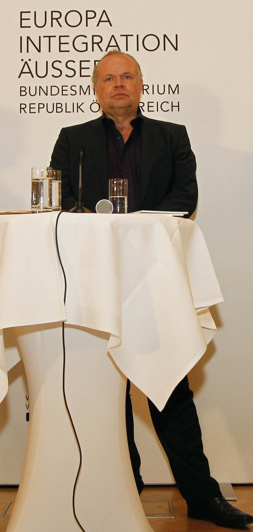 Kilian Kleinschmidt at a discussion on Management of Humanitarian Crises at the Ministry of Foreign Affairs in Vienna on March 19, 2015.